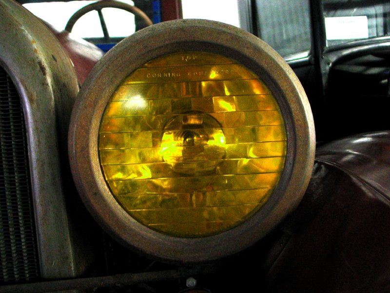 Early automotive headlamp equipped with a Corning Glass Co. Conaphore lens. Selective yellow "Noviol" glass version shown.